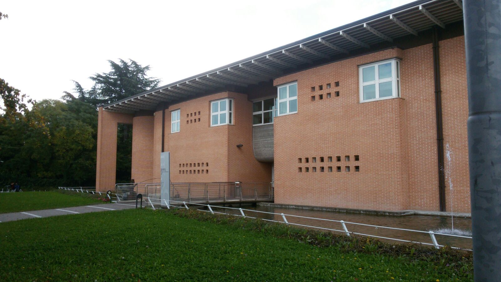 Main entrance of Montebelluna Public Library